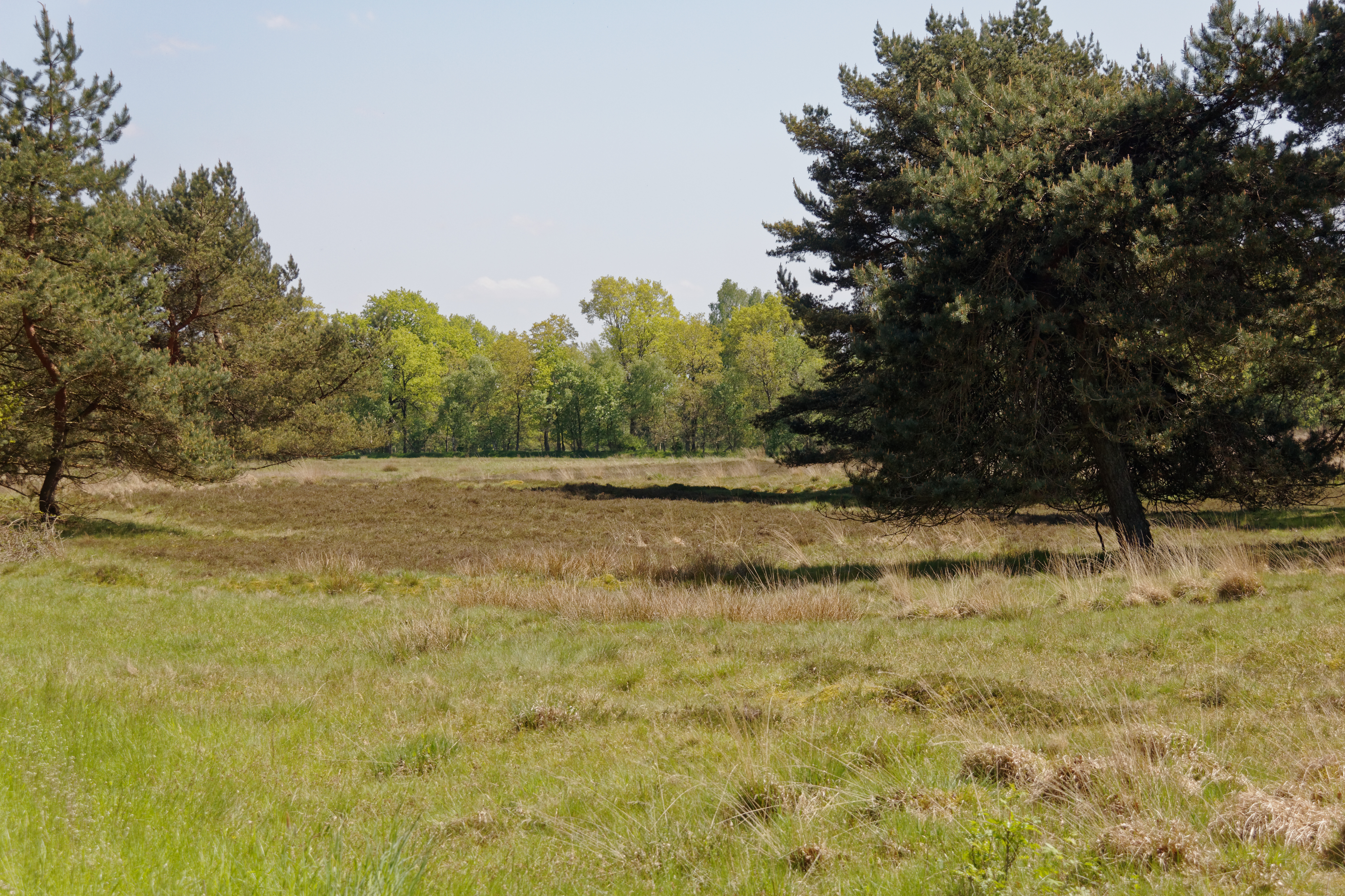 Nature reserve Barker Heide